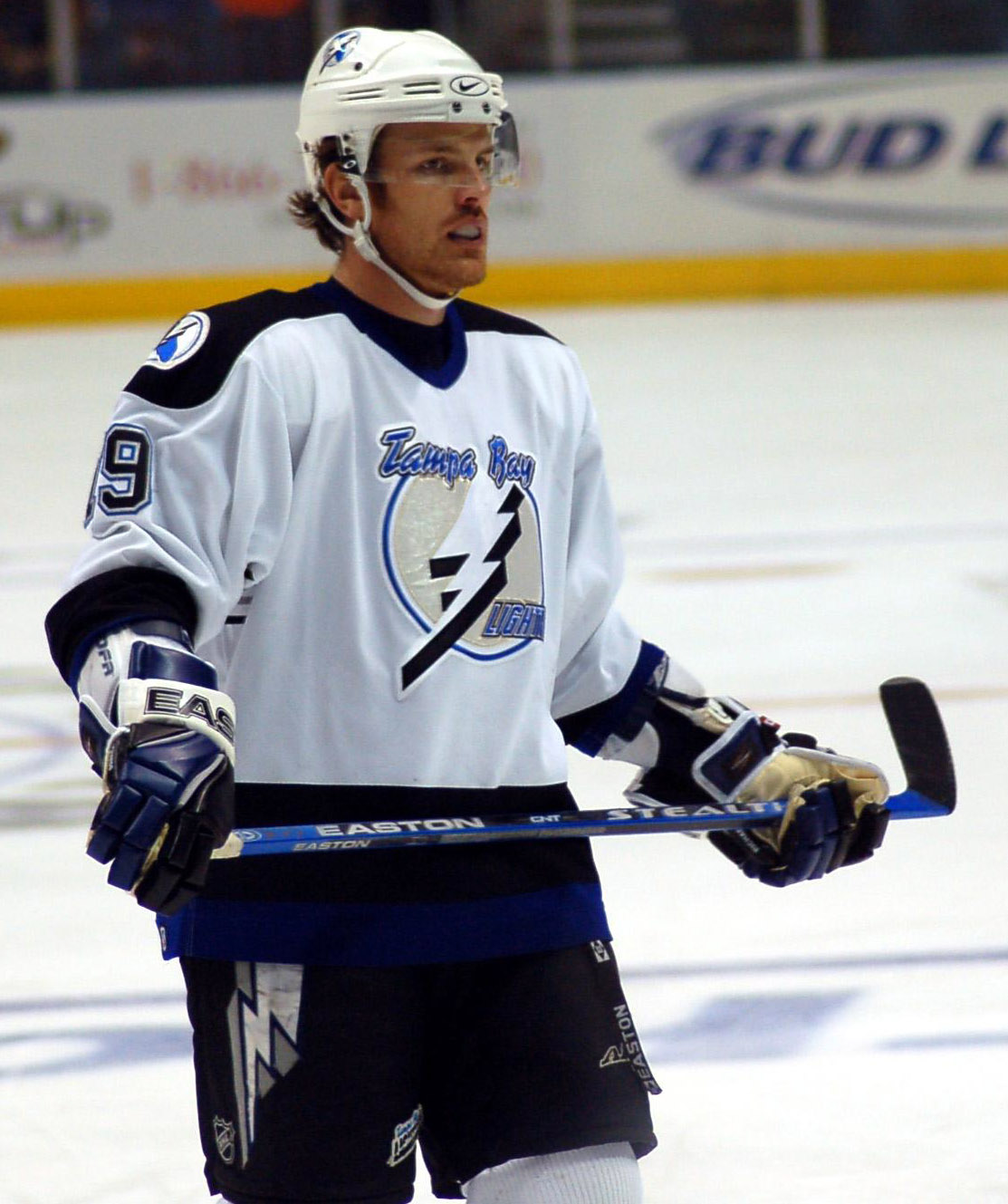 Canadian ice hockey player Brad Richards